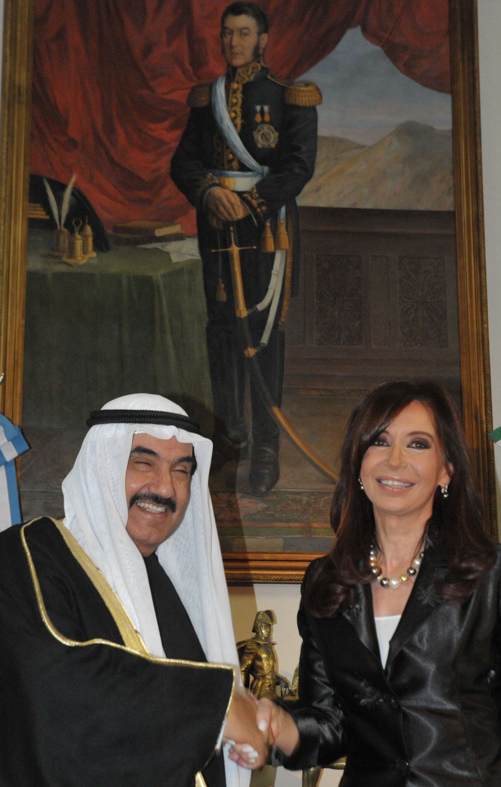 Argentine President Cristina Fernandez de Kirchner welcome Kuwait Prime Minister Nasser Mohammed Al-Ahmed Al-Sabah at Palacio San Martin palace in Buenos Aires